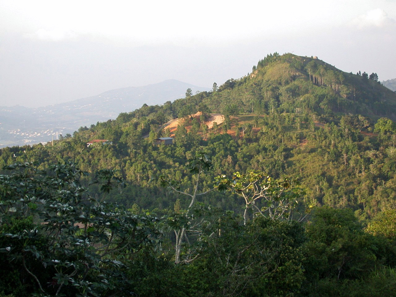 Mountains, Puerto Rico Photography by F. Bucher